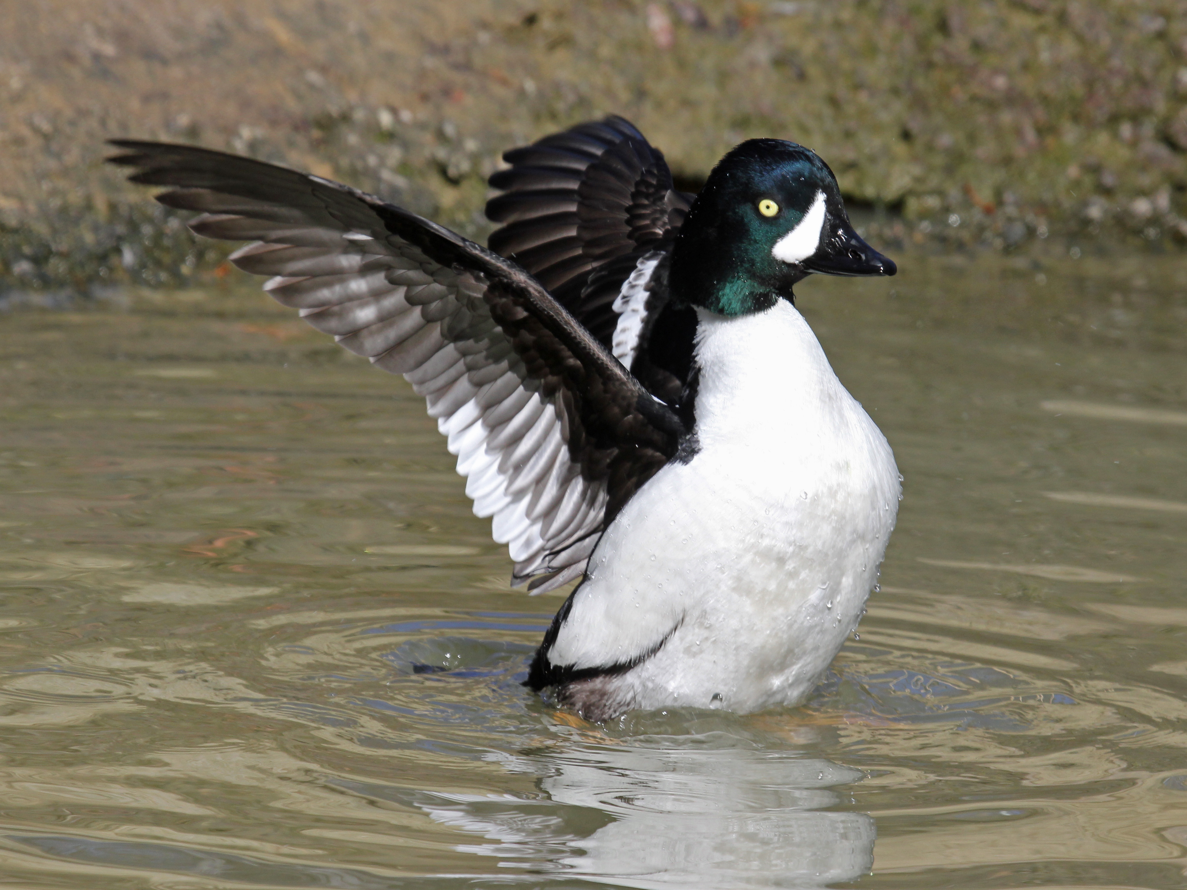 Male Barrow's Goldeneye (Bucephala islandica) - Sylvan Heights Waterfowl Park, North Carolina